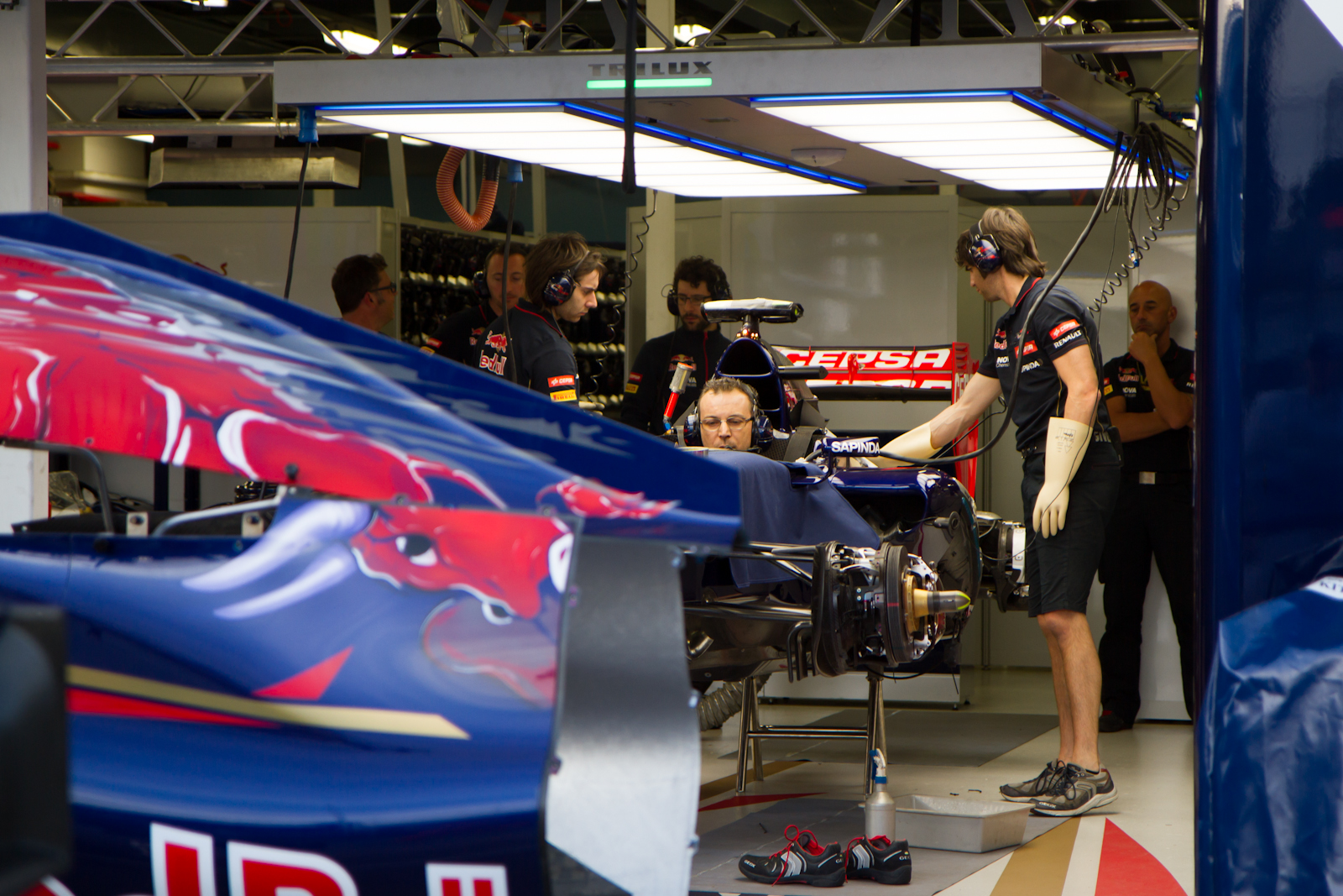 2014 Australian F1 Grand Prix